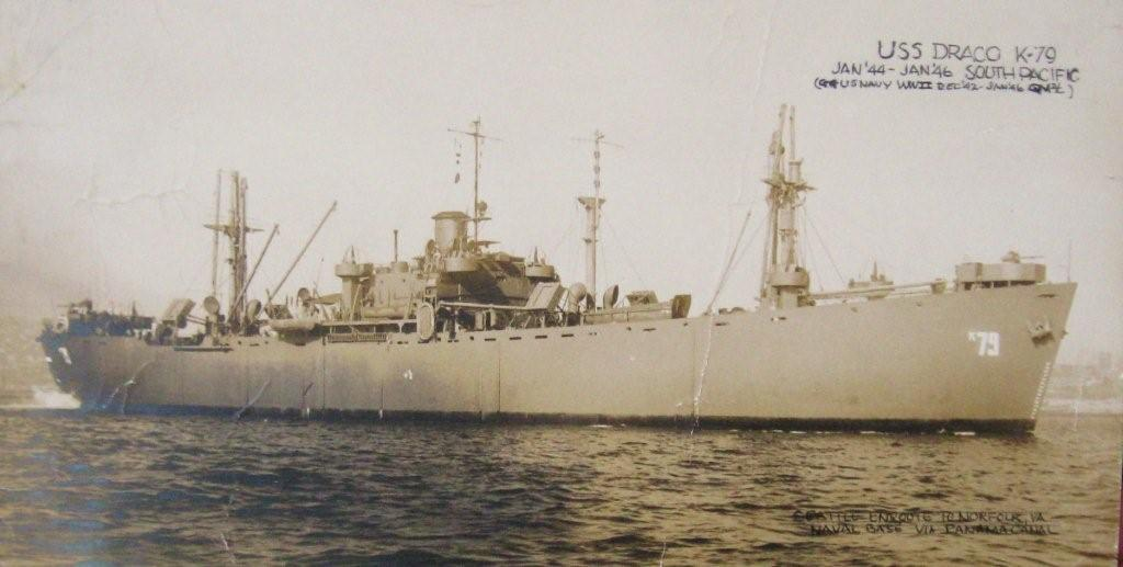 USS Draco (AK-79), U.S. Navy Crater-class cargo ship, Puget Sound, Seattle, WA, August 1945